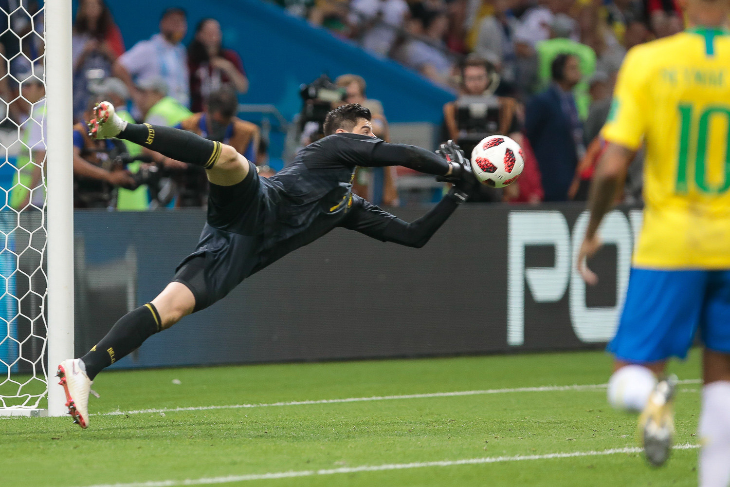 Belgium goalkeeper Thibaut Courtois making a save during the match against Brazil, 6 July 2018.